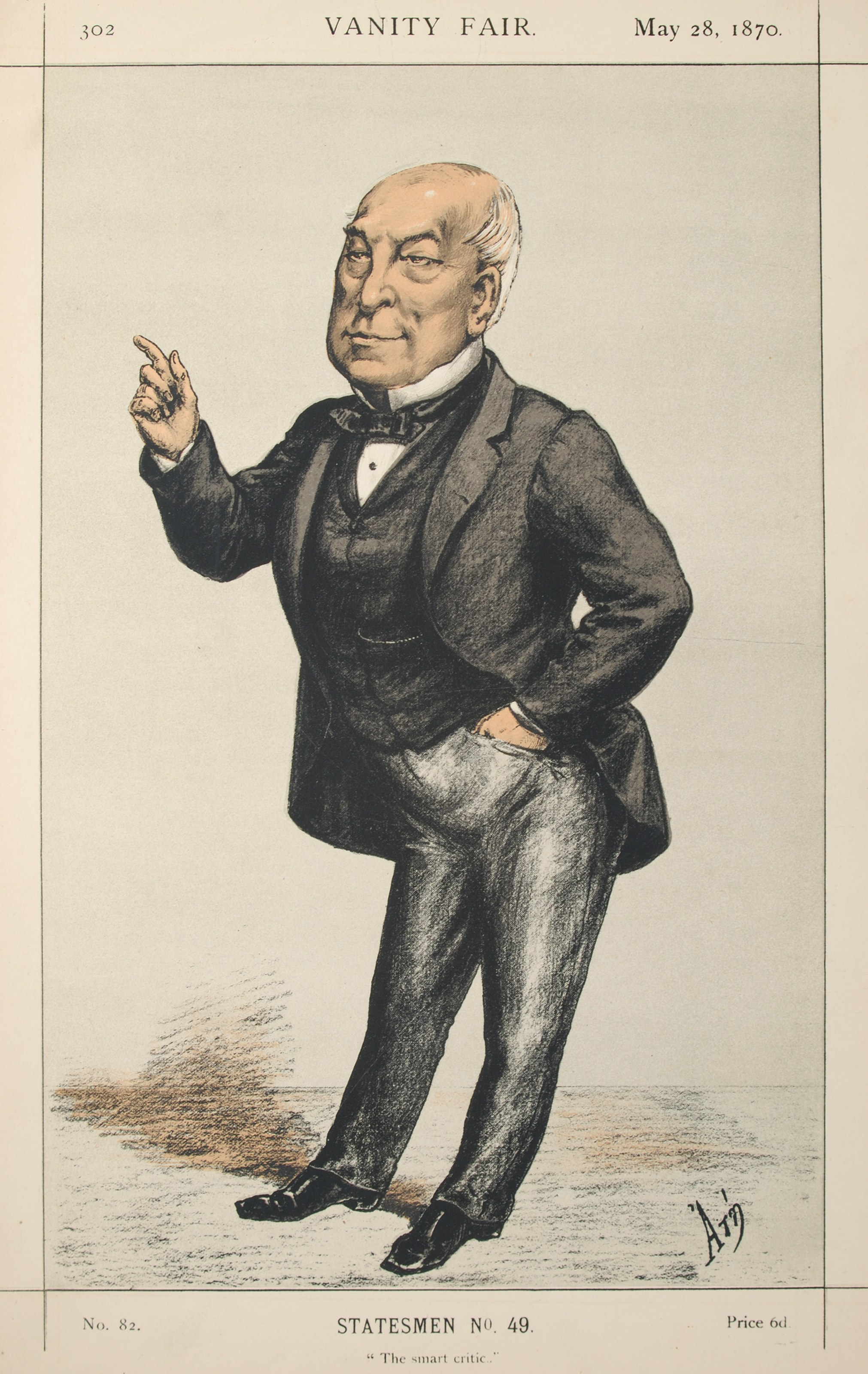 Statesmen No.49: Caricature of Mr Ralph Bernal Osborne. Caption reads: "The smart critic."